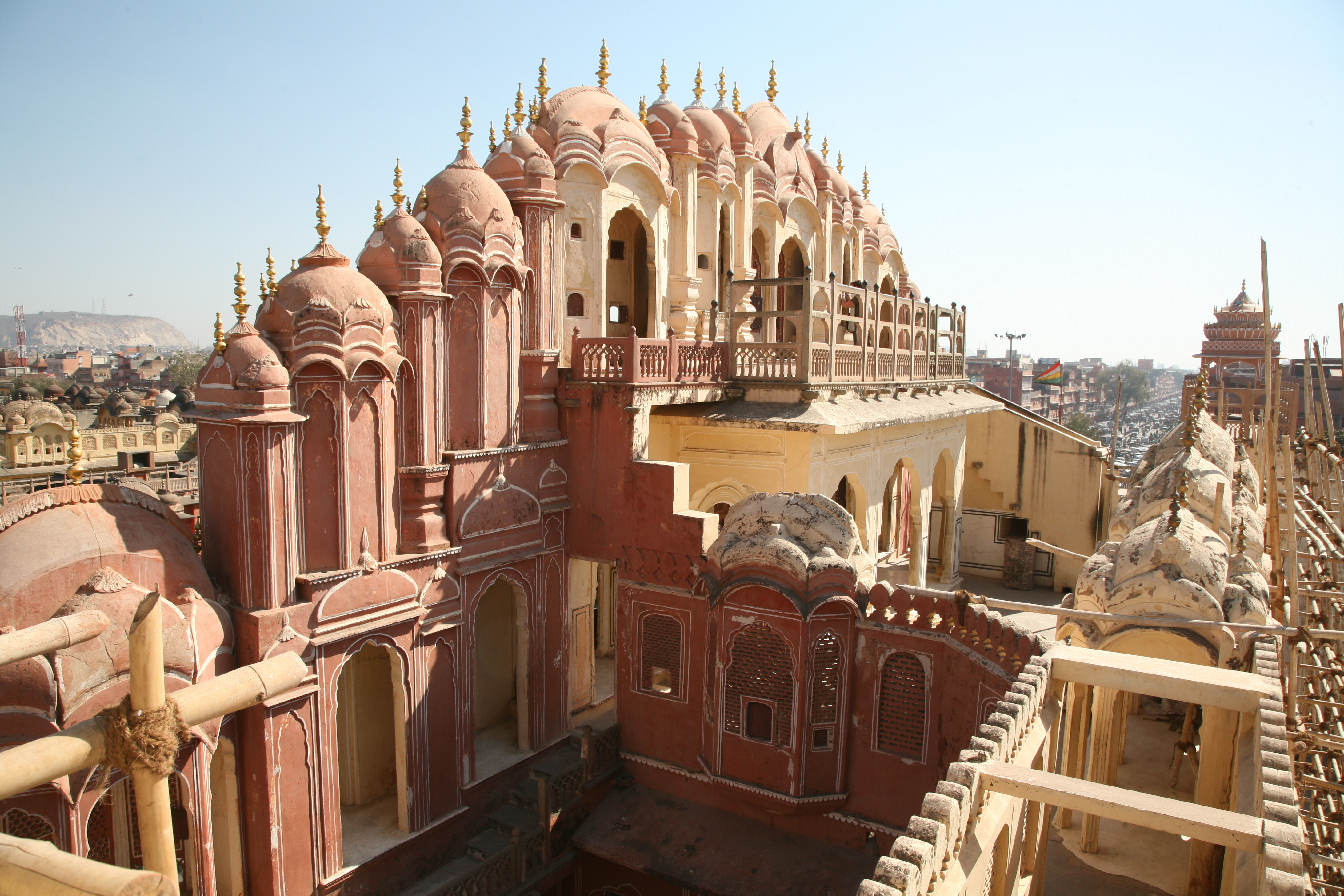 Hawa Mahal (Palace of Winds) in Jaipur. From the top.